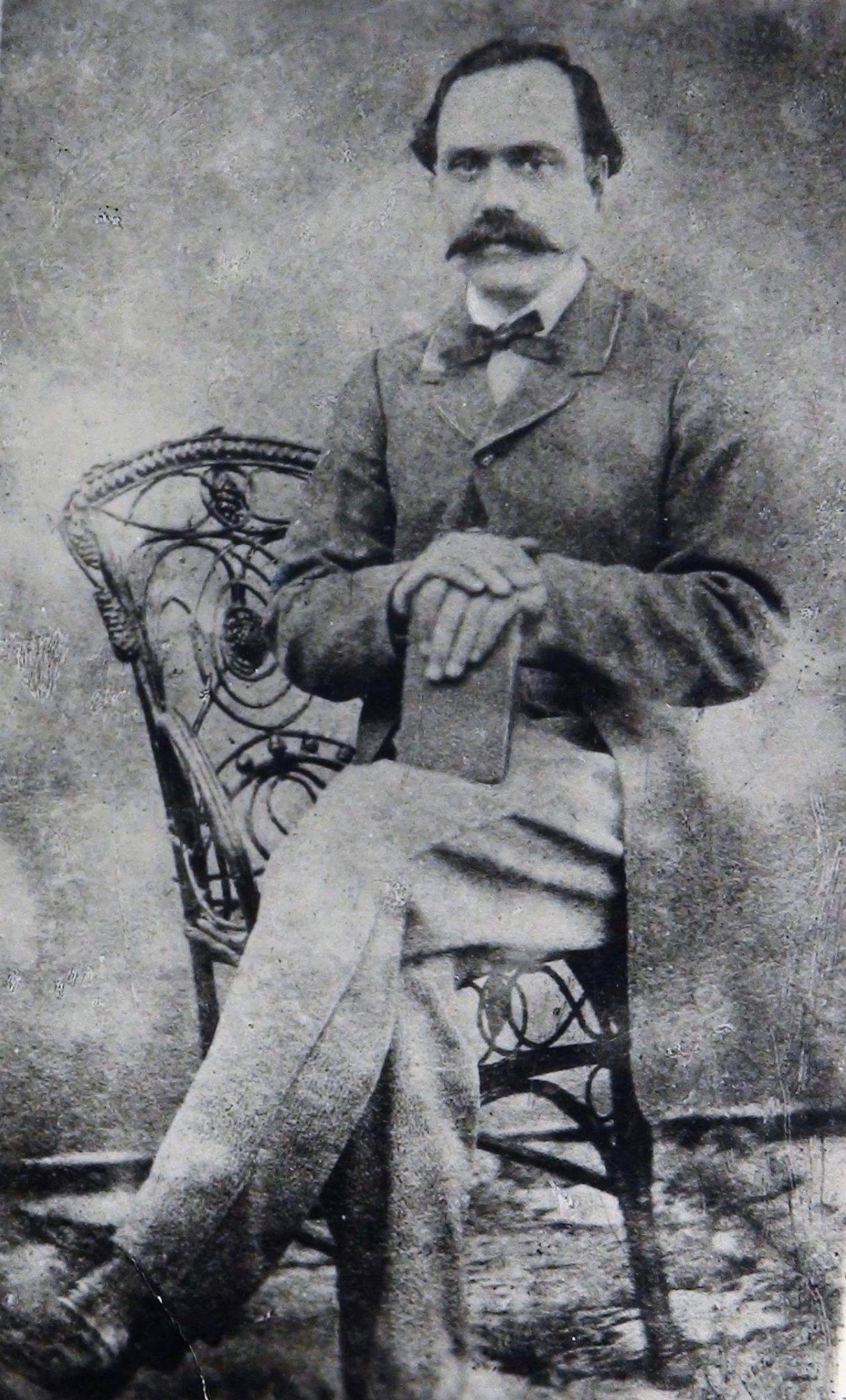 Kostandin Nelko, known as Kostandin Kristoforidhi, 1826–1895) was an Albanian translator and scholar.